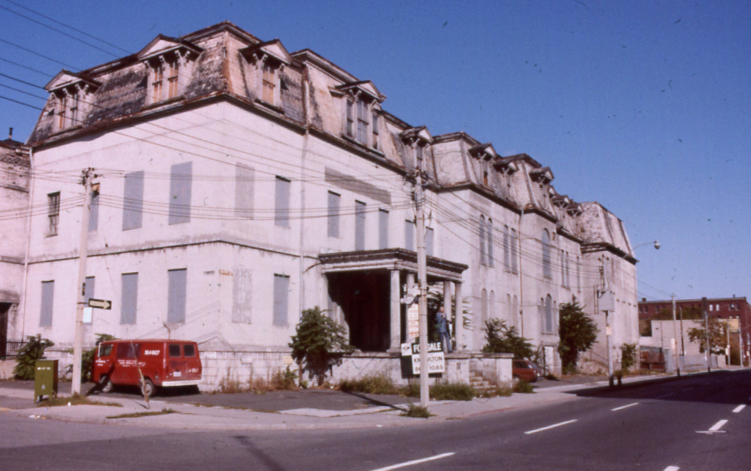 From left to right, this block includes the 1827 Bank of Upper Canada building, the 1871 De La Salle Institute building and the 1834 post office building. The post office is the first Toronto post office after York became Toronto. It is still a working post office but also a museum of Canadian postal services. At this time, the building was empty, after being used for 50 years by the United Co-Operatives of Ontario as offices and food storage.